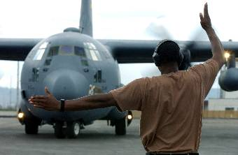 Staff Sgt. Austin Layton marshals a C-130 Hercules aircraft Oct. 24 at the international airport here. He is a flight manager assigned to the 322nd Air Expeditionary Group. Sergeant Jackson is deployed from Ramstein Air Base, Germany, supporting a humanitarian mission to help the African Union mitigate the crisis in Sudan's Darfur Region.